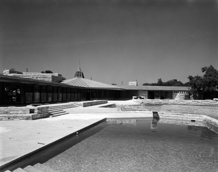 Title: [Pool view of John Gillin's house, designed by Frank Lloyd Wright] Creator: Richie, Robert Yarnall (1908-1984) Date: October 3, 1957 Part Of: Robert Yarnall Richie photographs Physical Description: 1 negative: film; 12.4 x 17.6 cm. File: ag1982_0234_4523_1_pool_opt.jpg Rights: Please cite Southern Methodist University, Central University Libraries, DeGolyer Library when using this image file. A high-quality version of this file may be obtained for a fee by contacting . For more information, see: View the Robert Yarnall Richie Photographs at